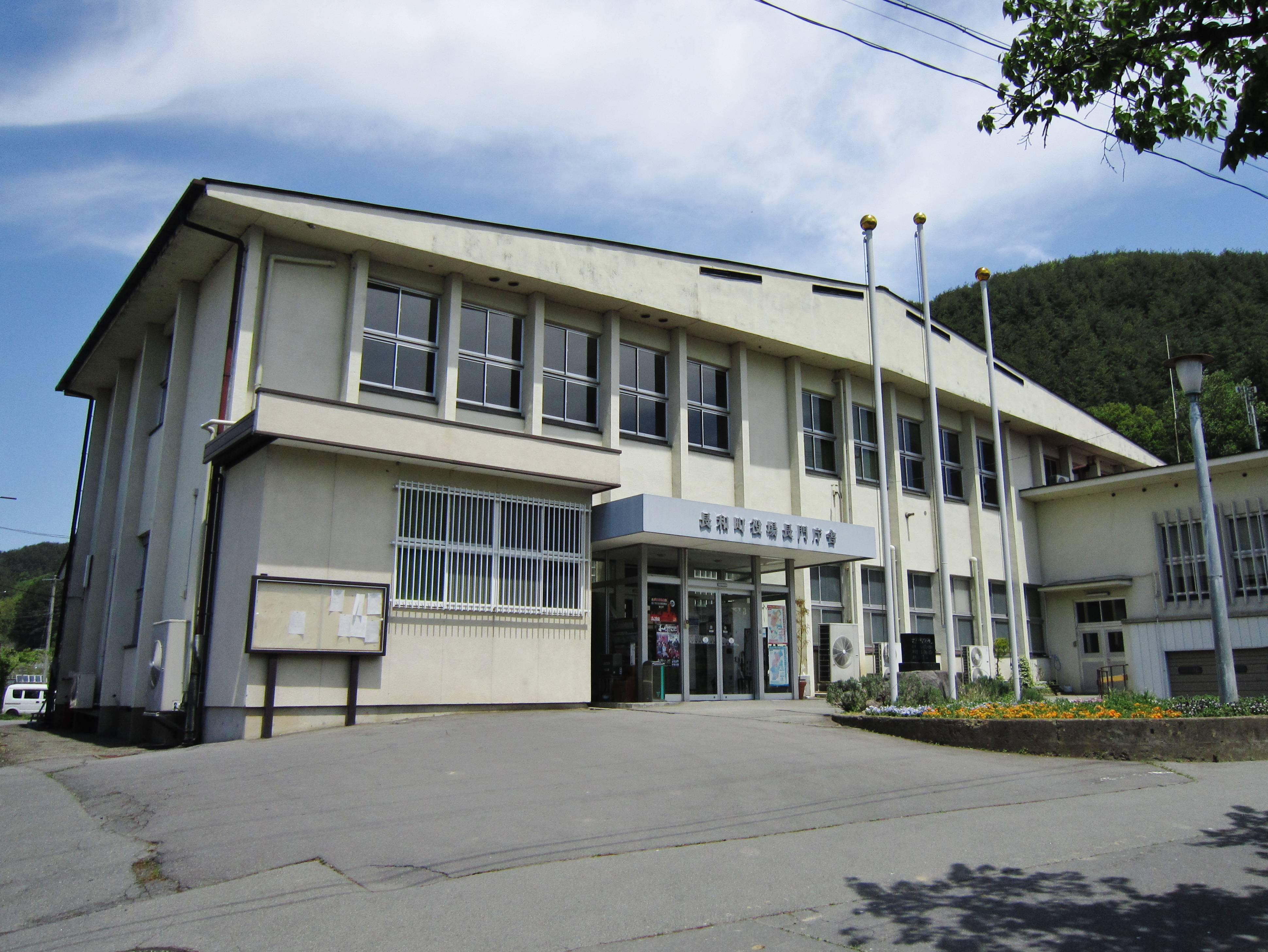 Nagawa town Nagato branch office.